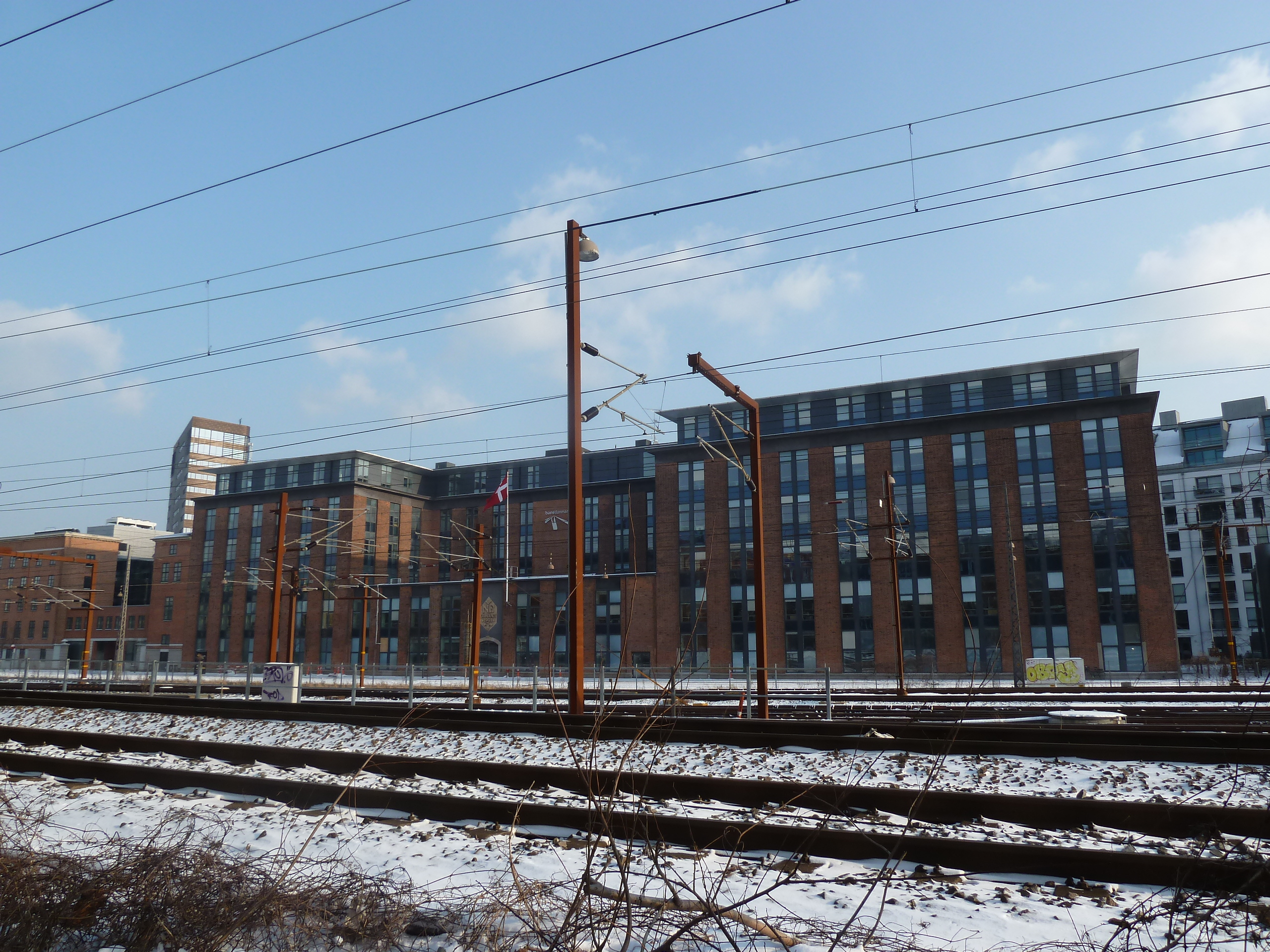 The head quartier of Banedanmark in Østerbro in Copenhagen.